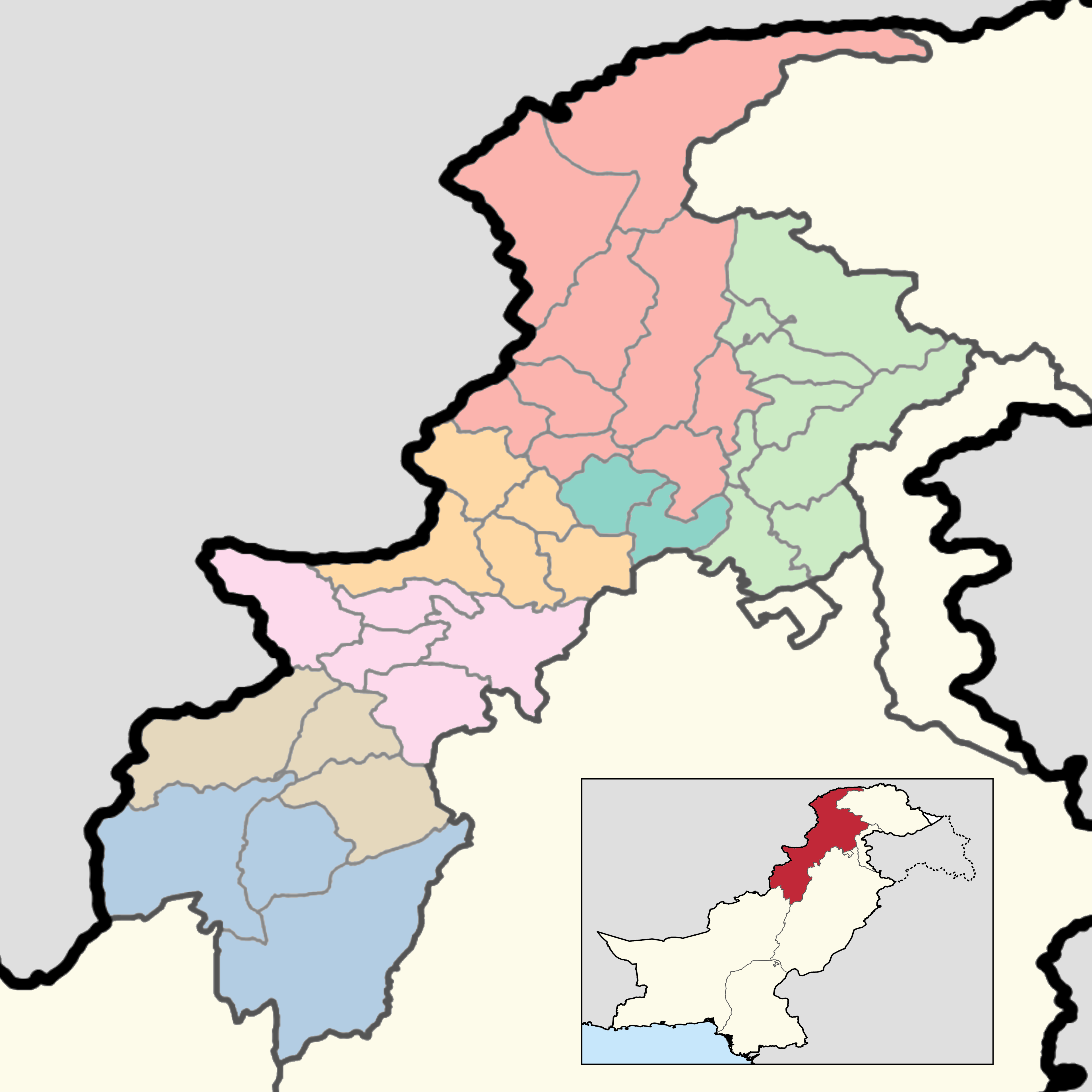 This is a map showing each and every district of Khyber Pakhtunkhwa. The map is accurate as of June 15, 2020 and has been made using data from the Pakistan Bureau of Statistics and UN OCHA's HumData Database (which citypopulation.de uses). Each color depicts a different administrative division (higher than a district but lower than a province).A map of the districts of Khyber Pakhtunkhwa with names can be found here.A blank map showing the districts of Khyber Pakhtunkhwa can be found here.A map showing every district of Pakistan can be found here.A locator map for this province with these updated district borders can be found here.